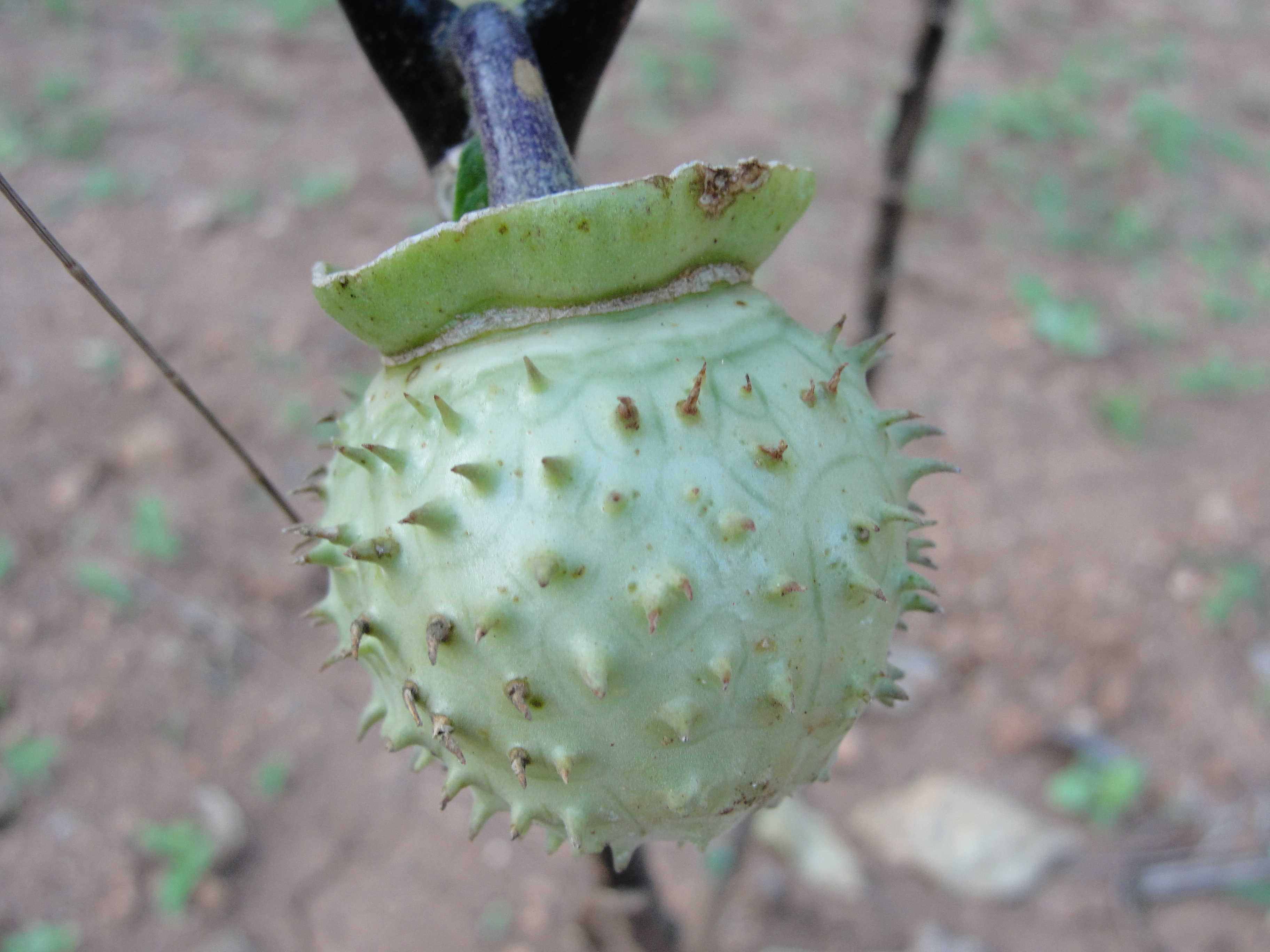 A berry of Datura metel